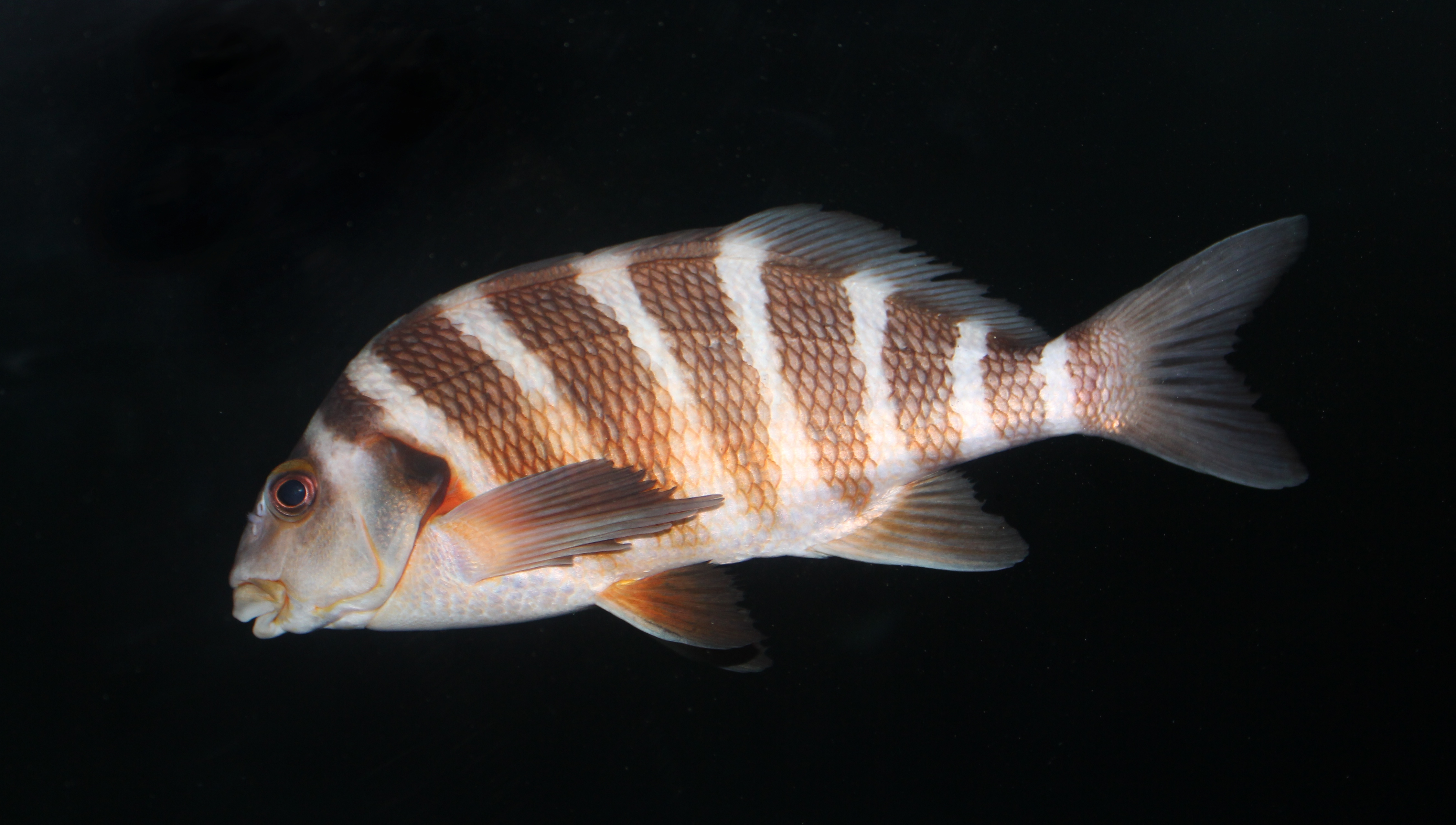 Red moki (Cheilodactylus_spectabilis or Goniistius spectabilis), at Kelly Tarlton's Underwater World, Auckland, New Zealand.